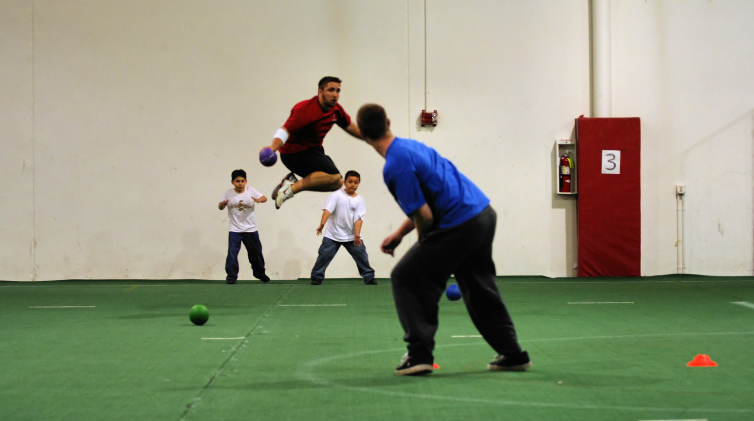 Photograph of two players participating in a charity dodgeball event (Lansing Area Credit Unions Coed Dodgeball Tournament) held near Lansing, MI at "The Summit at the Capital Centre", a regional sports facility. The one dodging the ball is Jacob Murphy from East Lansing, Michigan